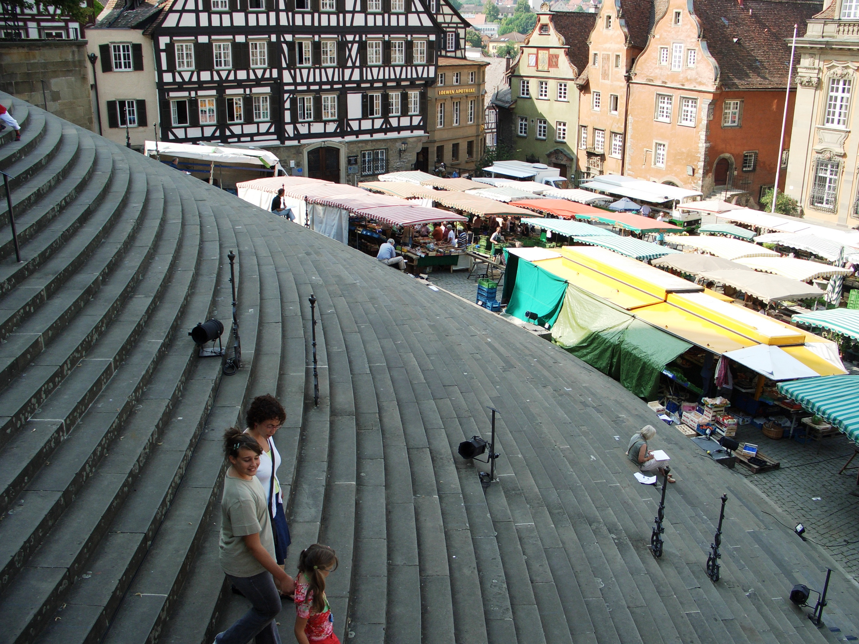 Conical monumental stairs at market place (Am Markt) in Schwäbisch Hall, Germany.